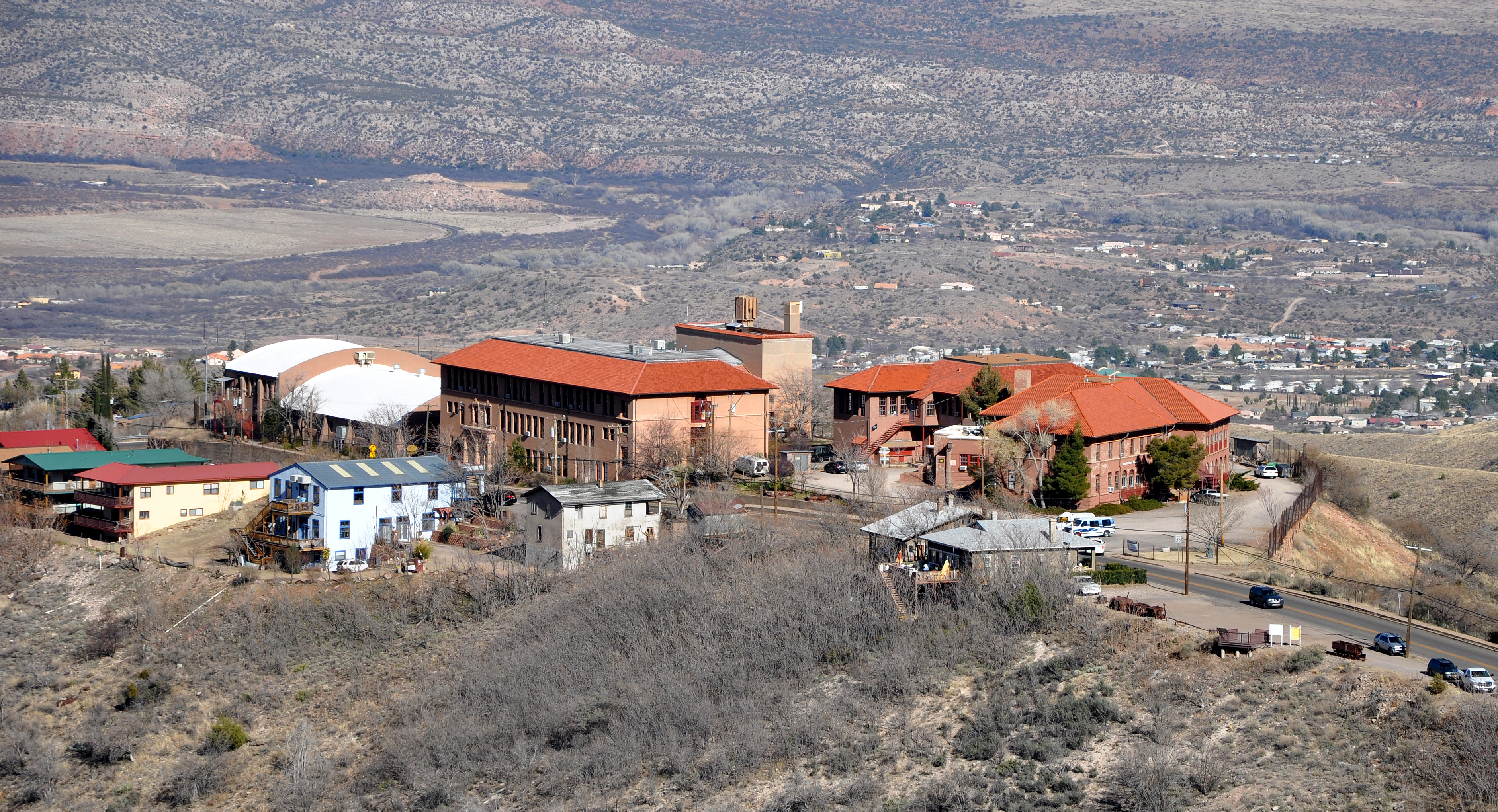 Former high school building complex in Jerome in the U.S. state of Arizona. View is from downtown Jerome, which is at higher elevation than the school. The four-building complex, no longer a public school, is home to artists' galleries, light industry, and private businesses.